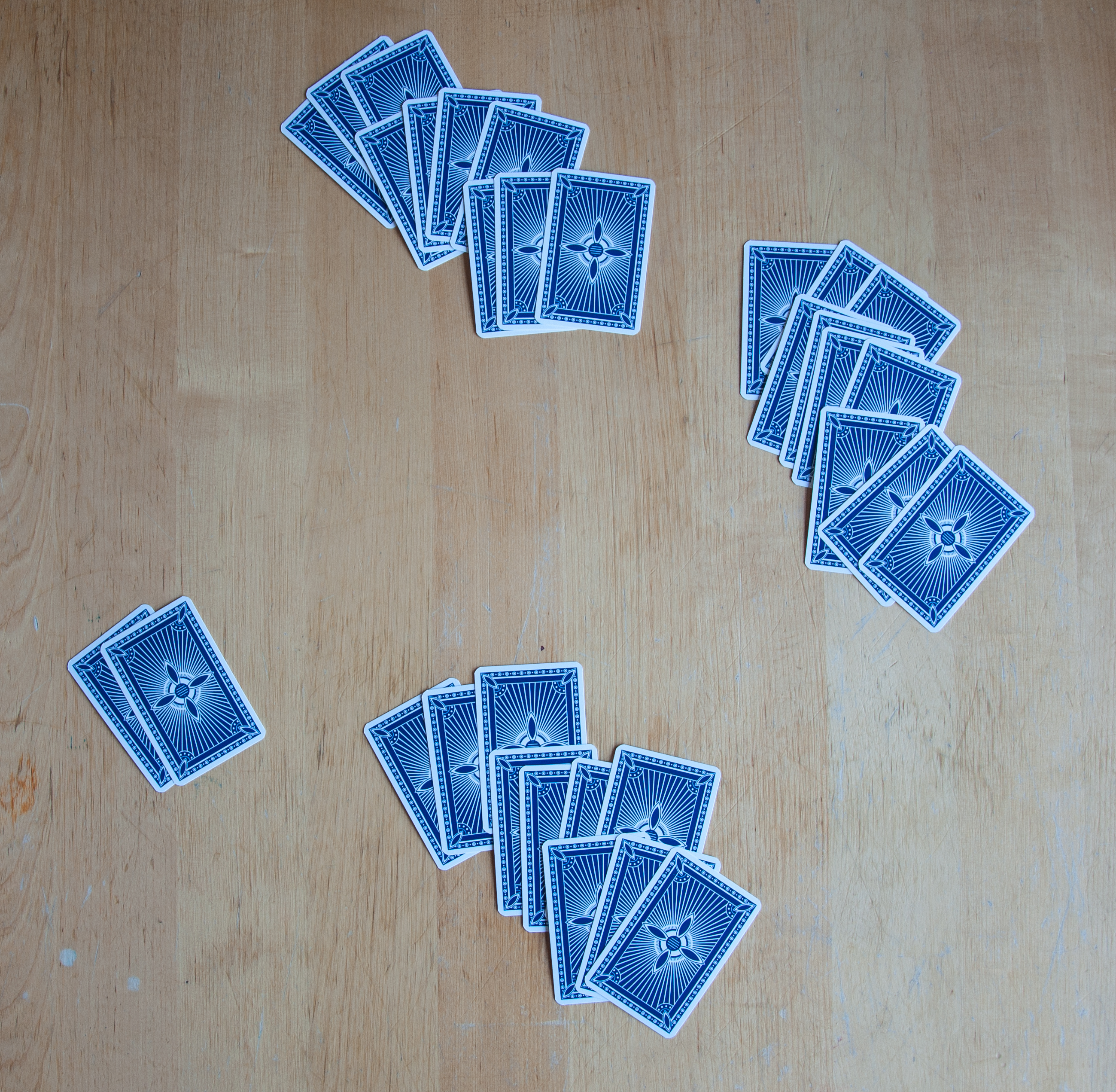 Skat